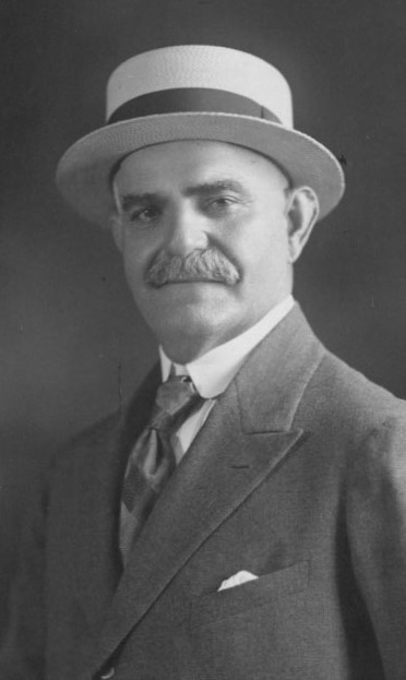 George Lycurgus (Greek: Γεώργιος Λυκοῦργος) (1858–1960) was a Greek American businessman who played an influential role in the early tourist industry of Hawaii.